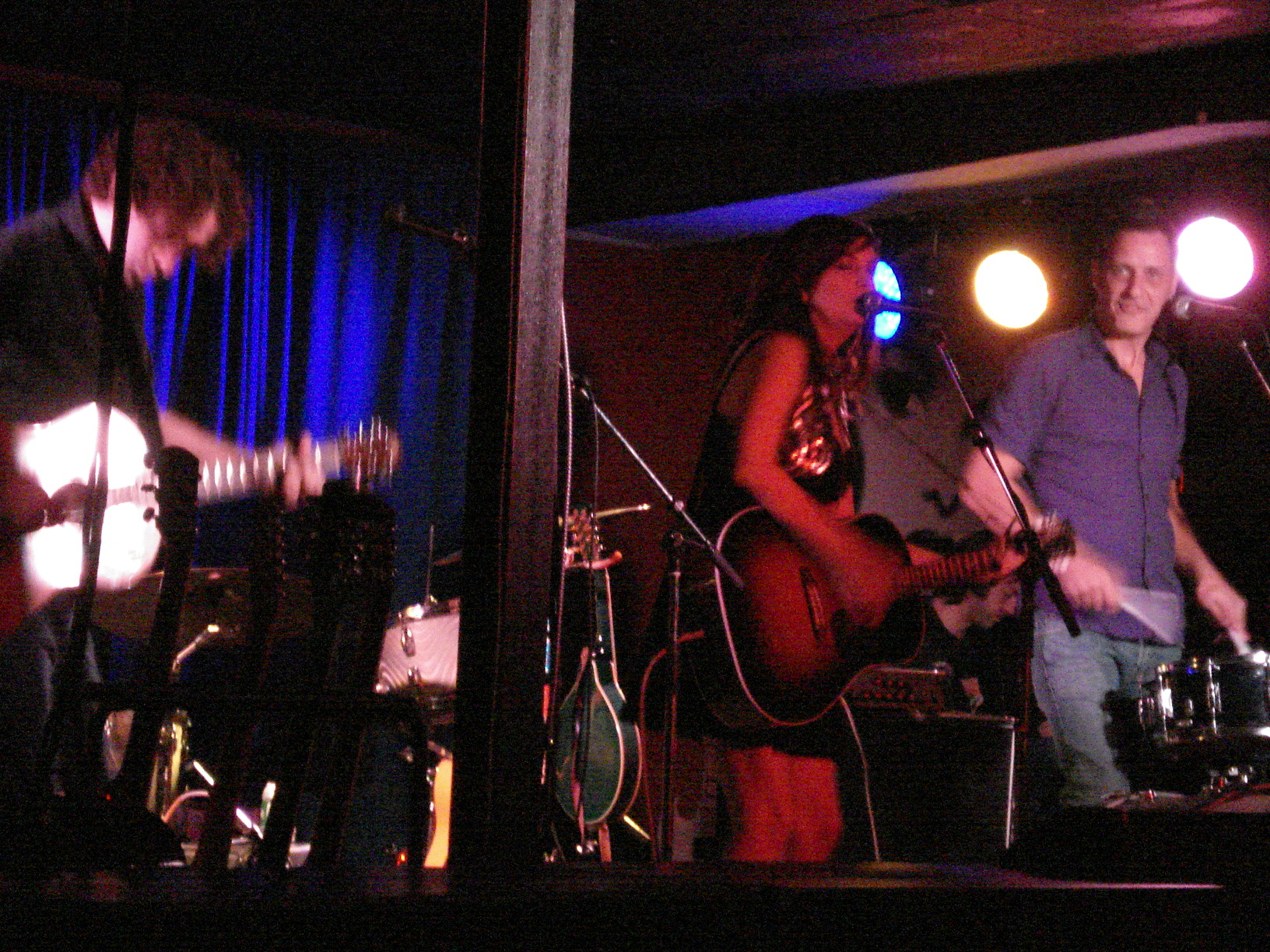 The Heartbroken at the Starlight Lounge, Waterloo, Ontario, Canada. November 16, 2010. Left to Right Stuart Cameron, Damhnait Doyle, Blake Manning. Missing is Peter Fusco